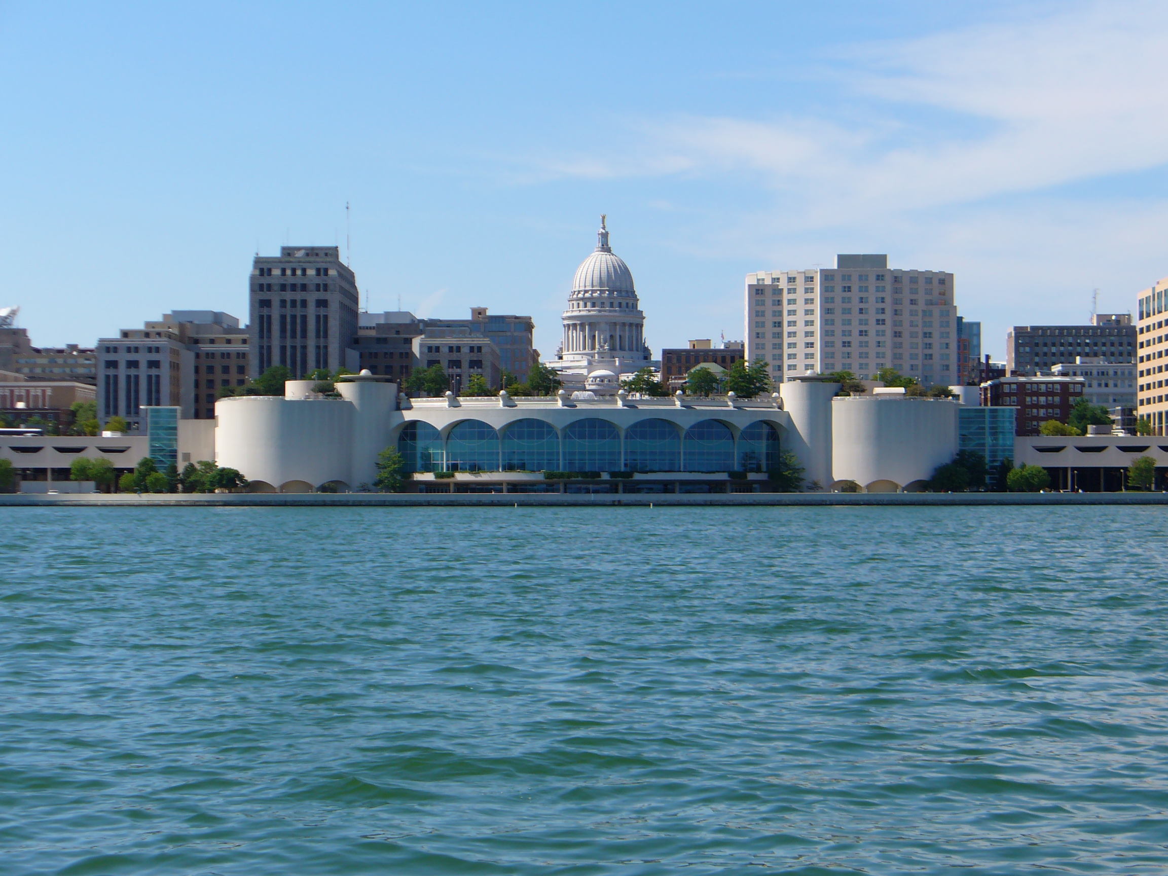 The skyline of Madison, Wisconsin as seen from Lake Monona. Monona Terrace is in the center of the picture with the capital directly behind it.